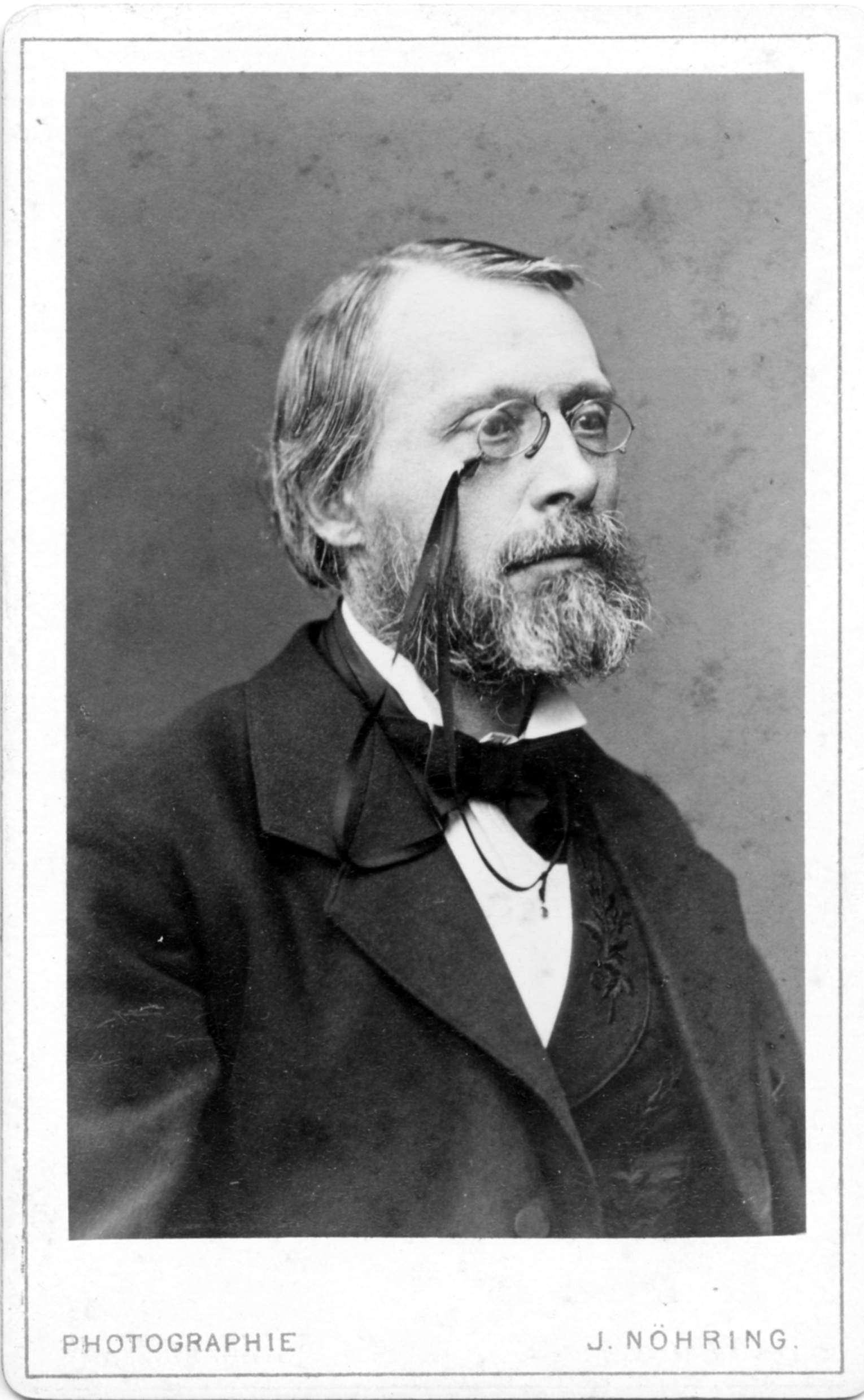 Prof. Adolph Holm um 1870